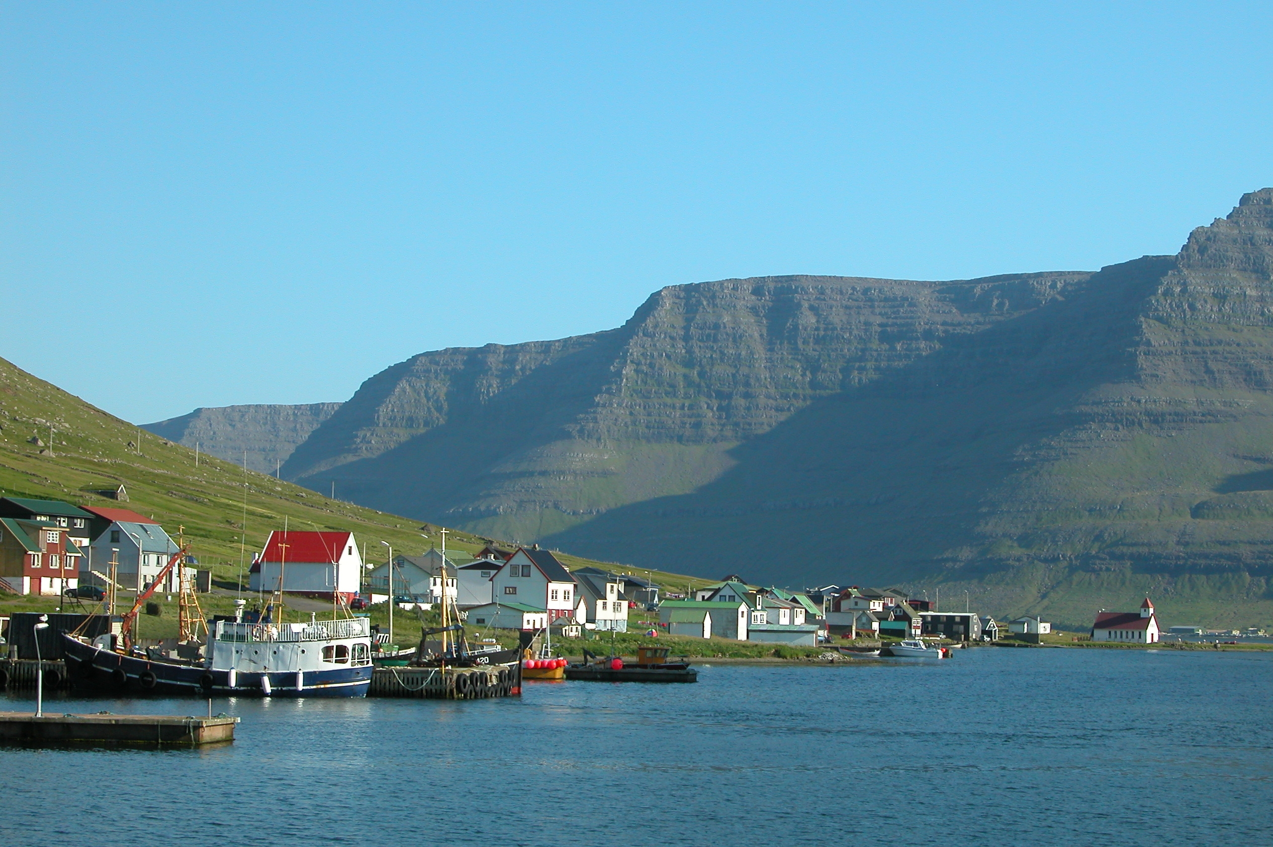 Hvannasund on Viðoy, Faroe Islands.